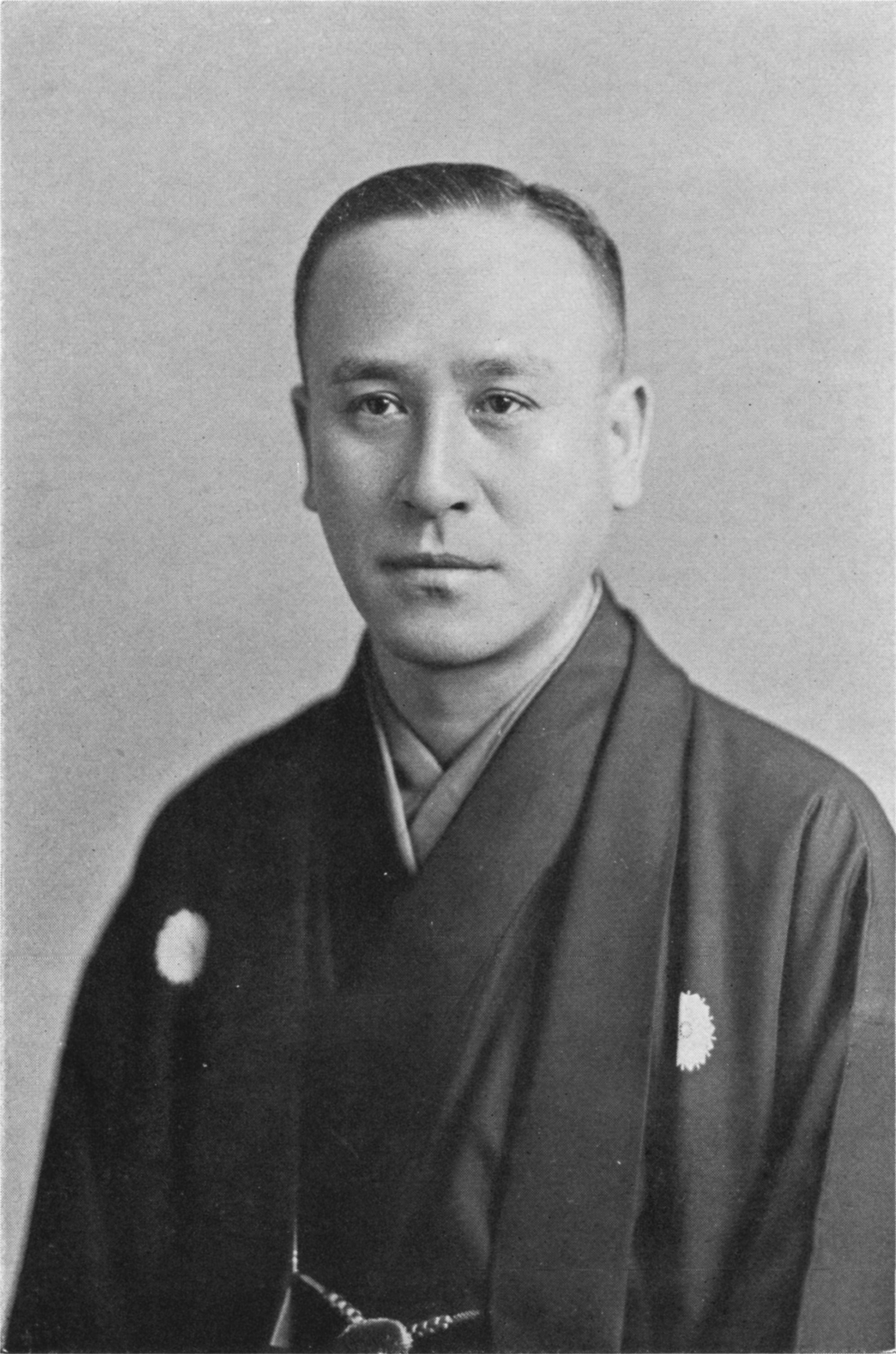 Japanese Noh actor KANZE Sakon(1895 - 1939)